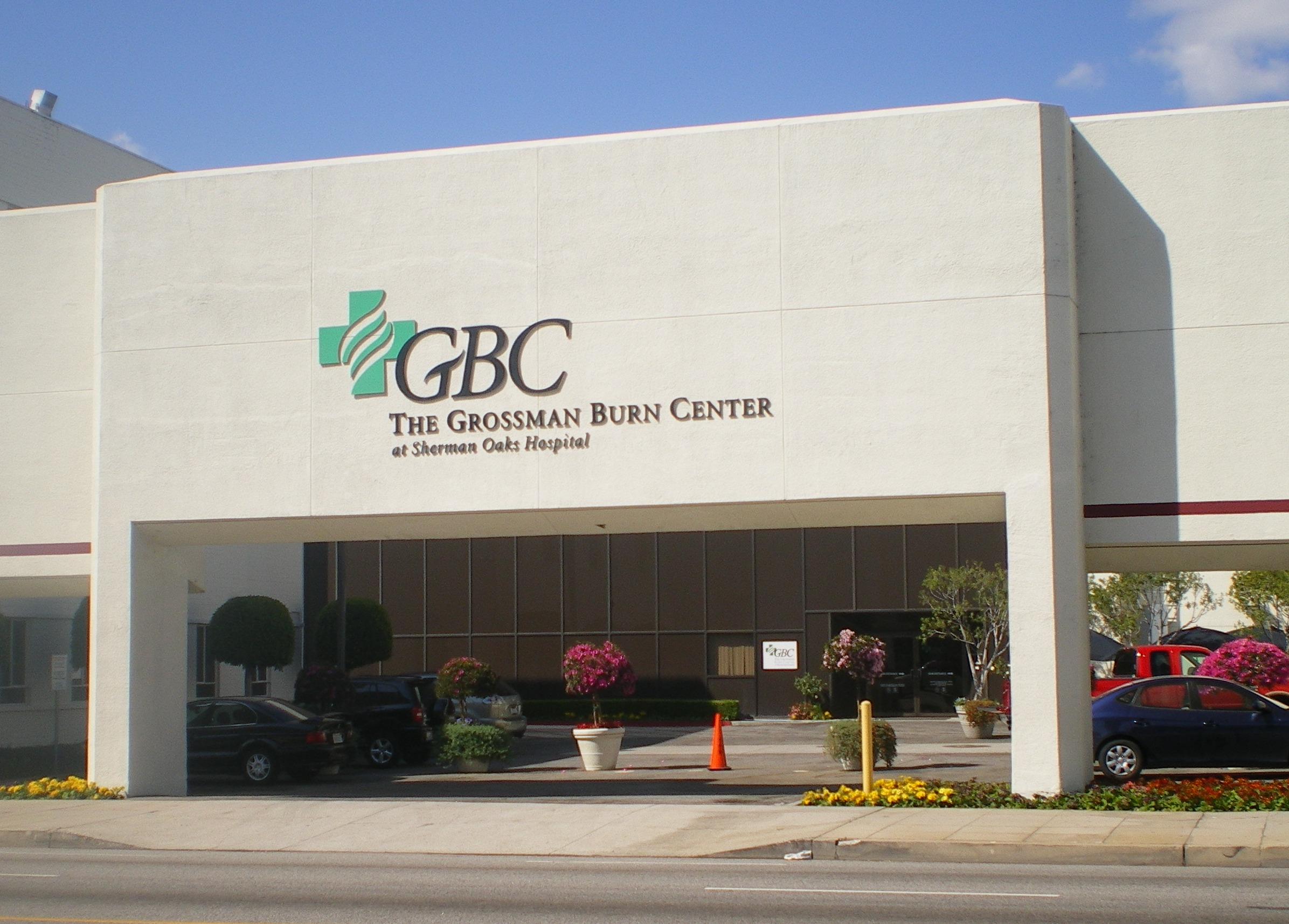 Grossman Burn Center - West Hills Hospital West Hills, California